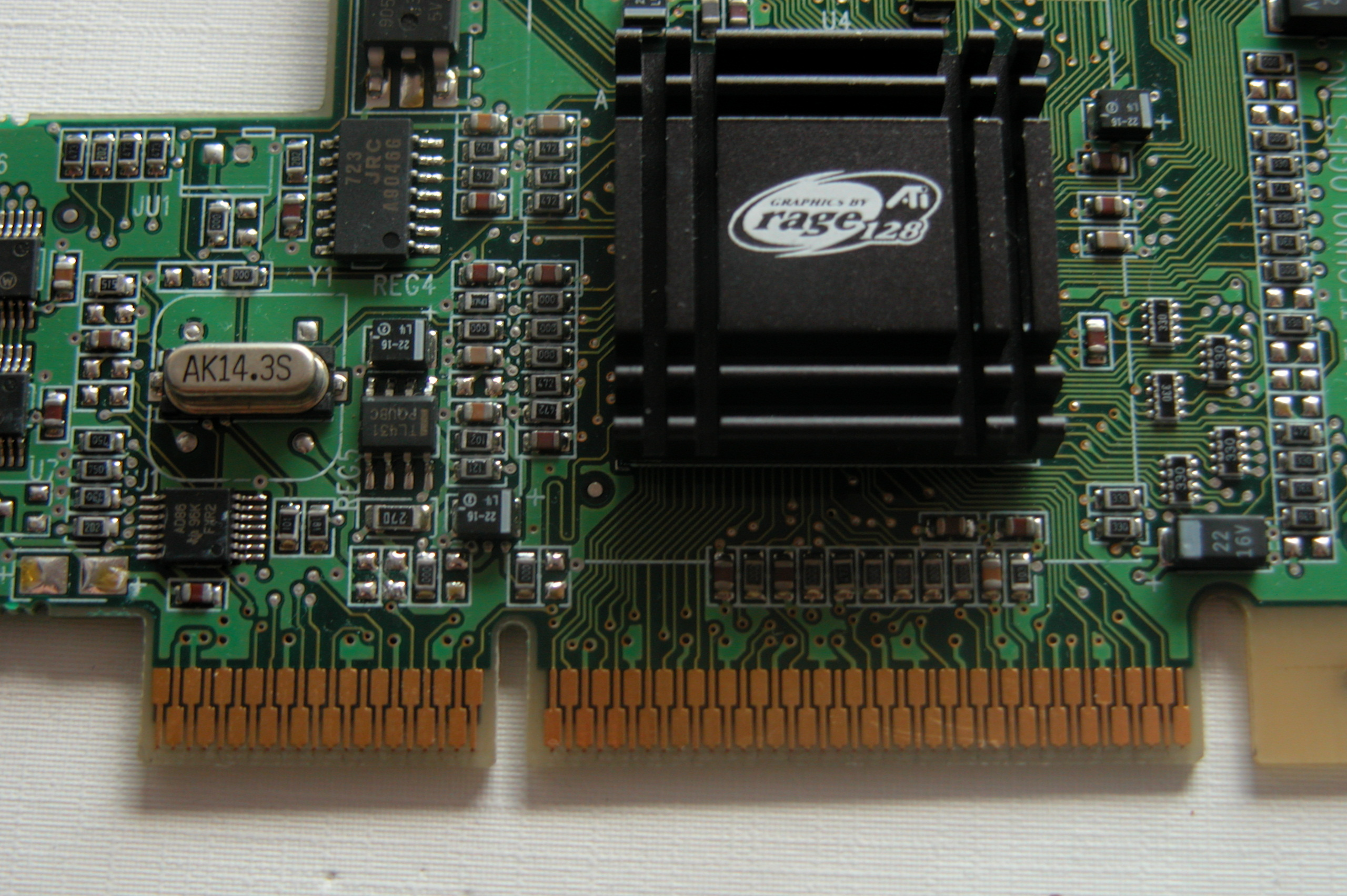 The AGP port of an ATI Rage128 graphics card